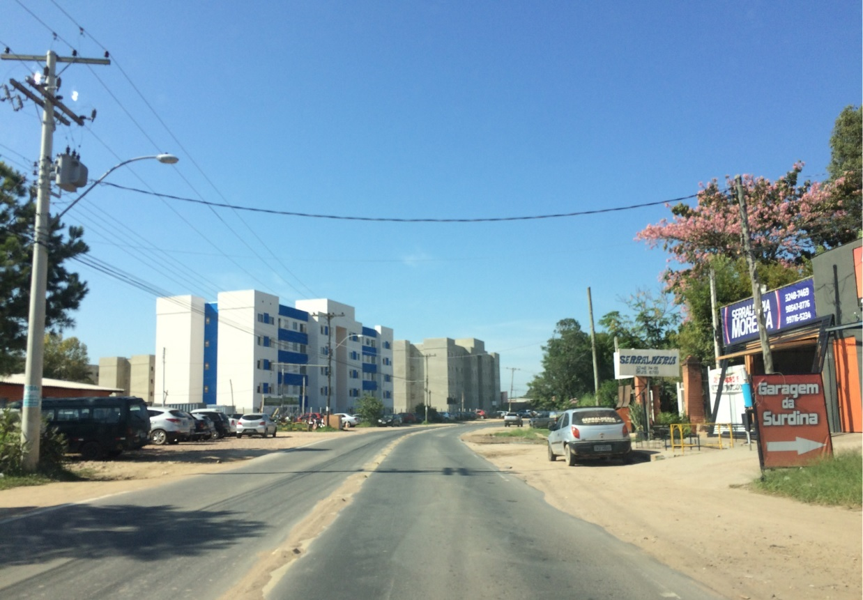 "Residencial Jardim Figueira", a big project of "Minha Casa, Minha Vida" social housing program, located in Porto Alegre. The address is Juca Batista Avenue, 6878.